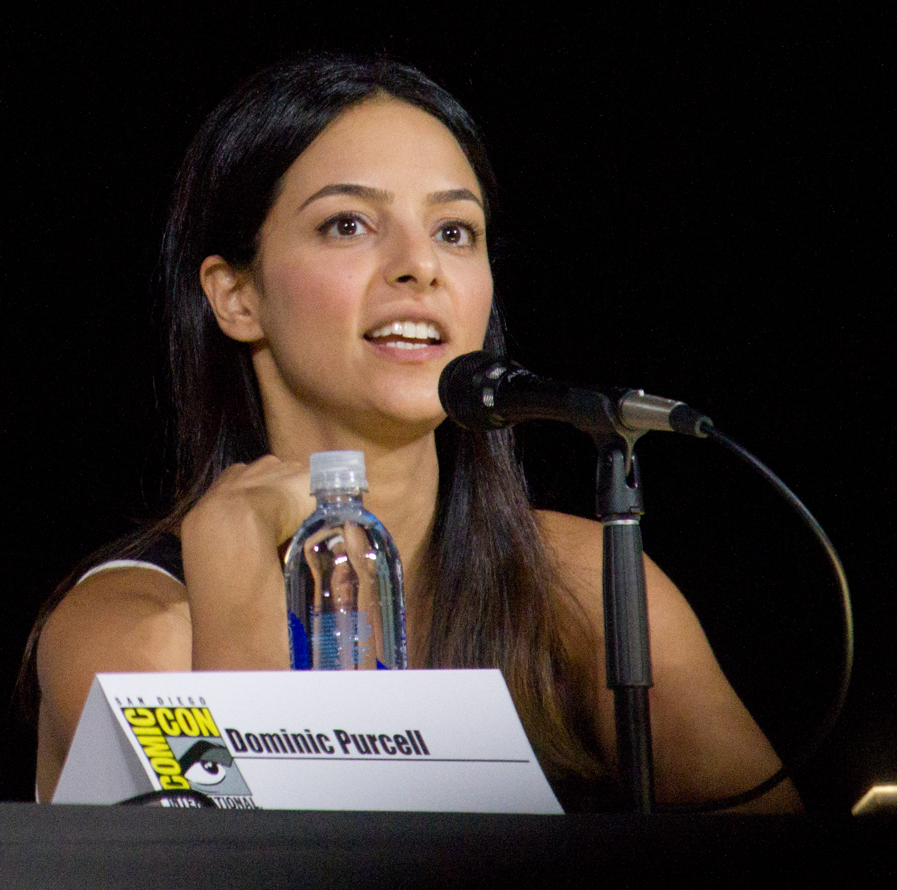 Cast & creators panel at SDCC 2017